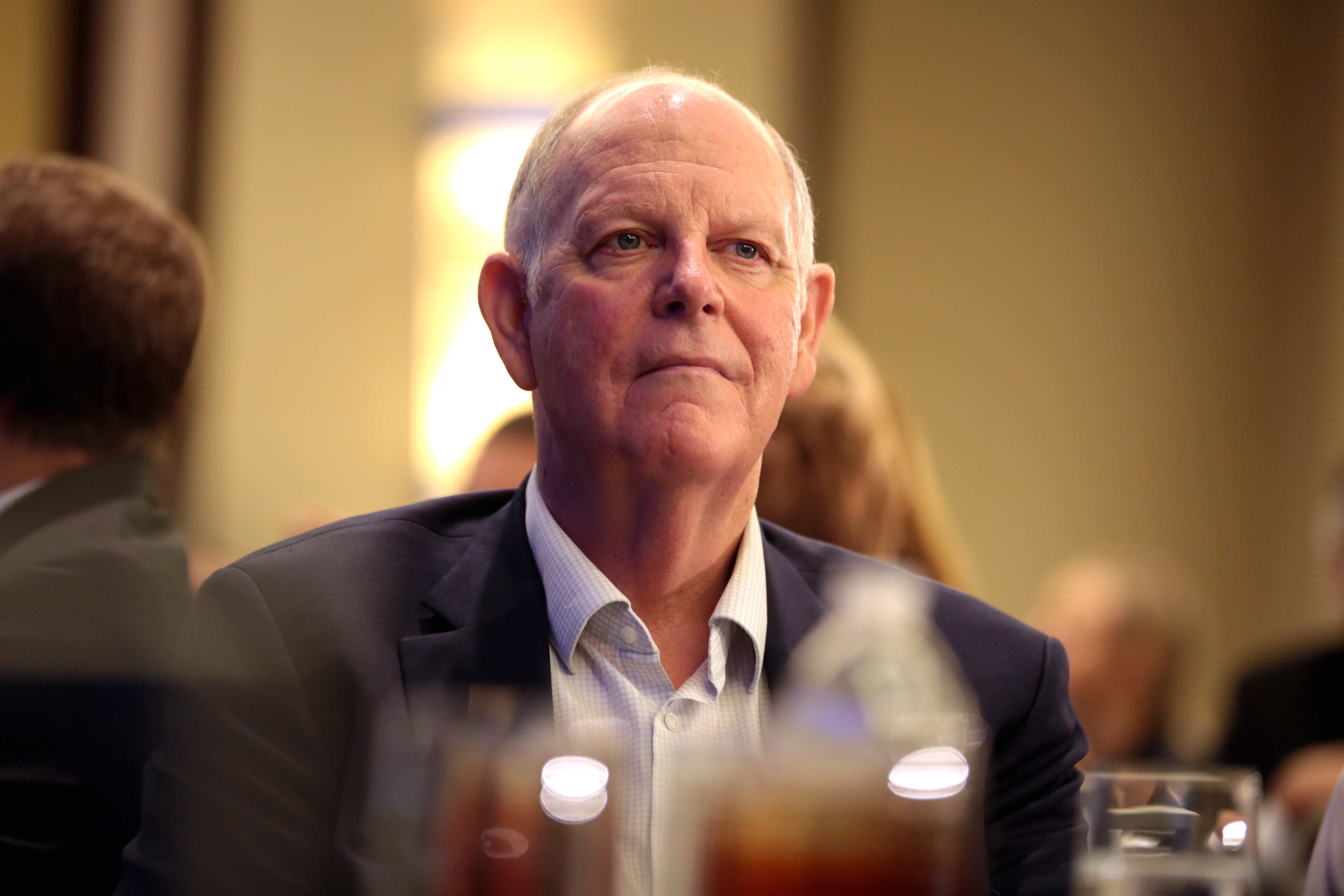 U.S. Congressman Tom O'Halleran speaking with attendees at the 2018 Arizona Manufacturing Summit hosted by the Arizona Manufacturing Council and the Arizona Chamber of Commerce & Industry at the Renaissance Downtown Hotel in Phoenix, Arizona.